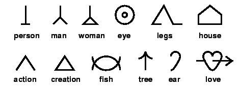 basic symbols of bliss langage